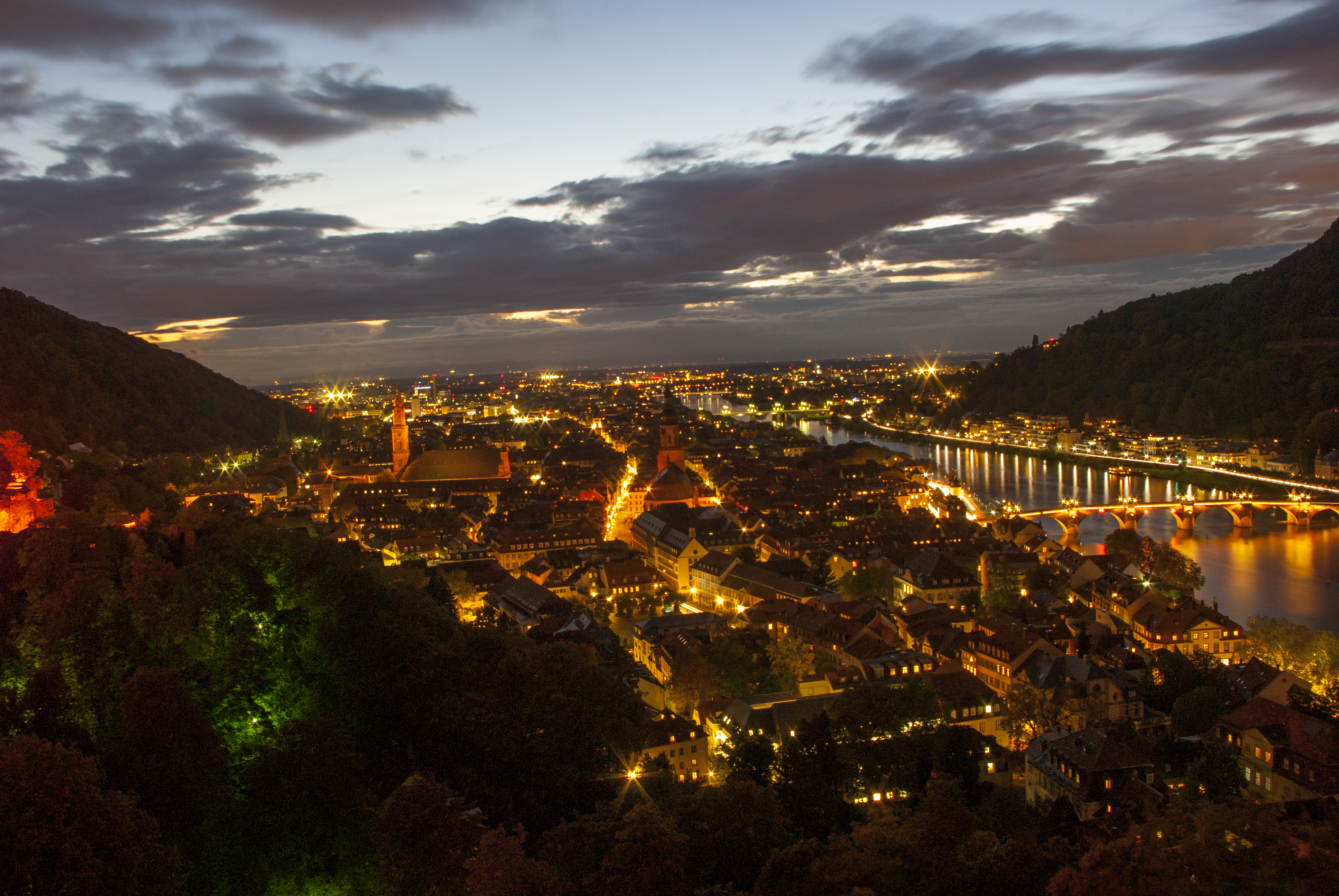 Heidelbergs city center in the evening hours